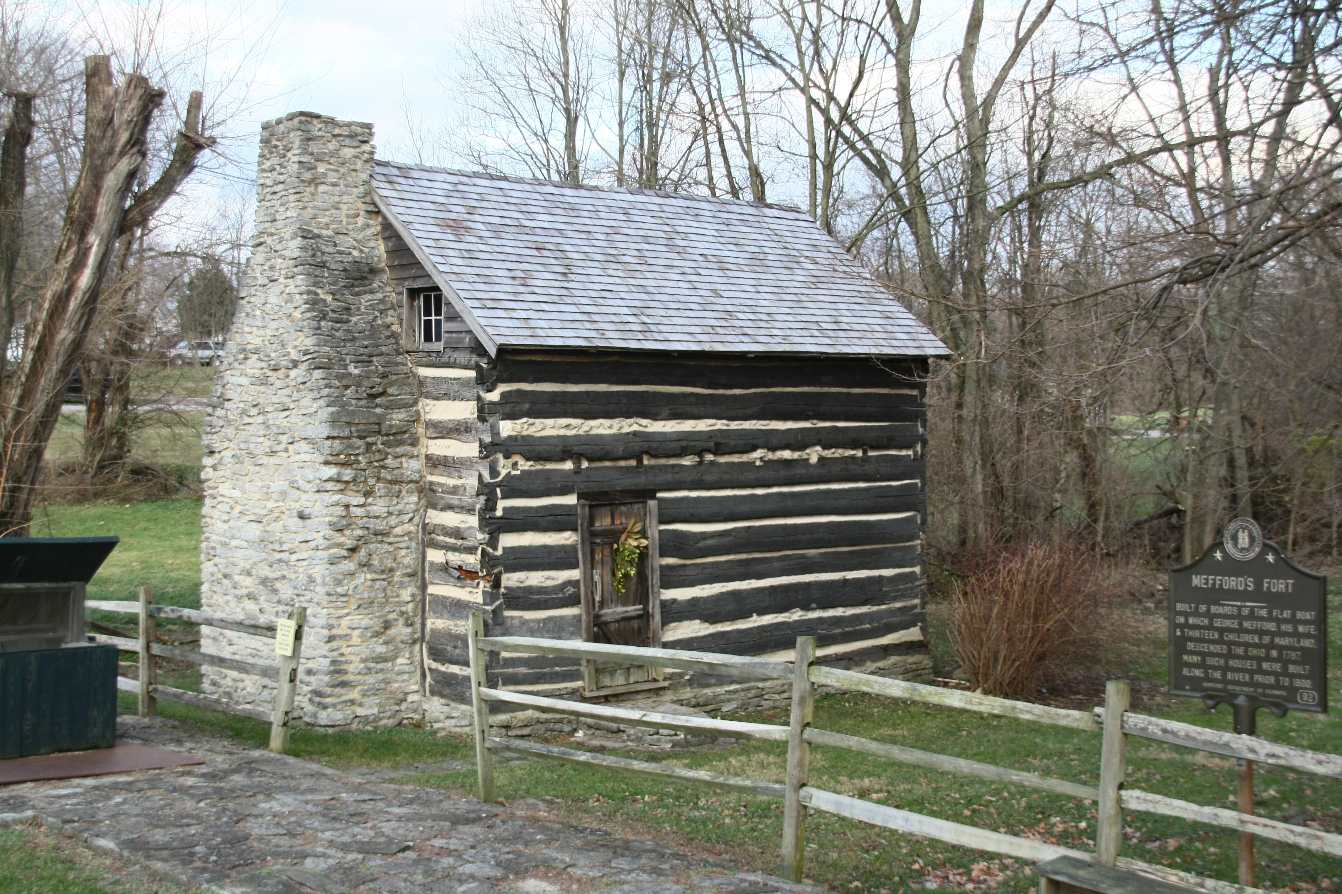 Meffords Fort in Washington, Kentucky.